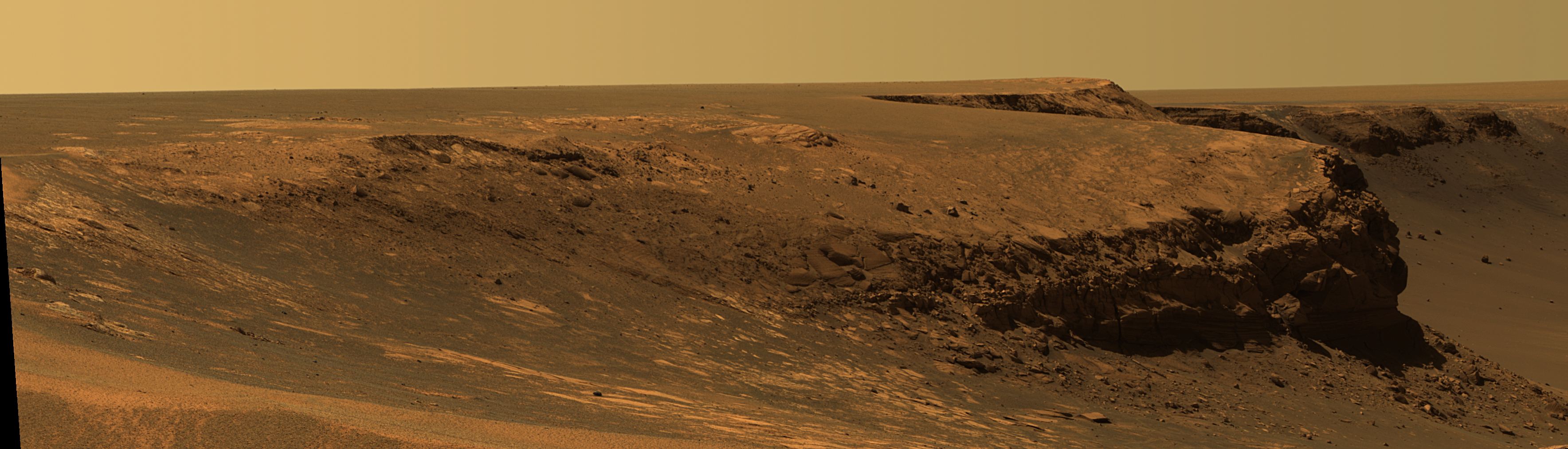 This view of Victoria crater is looking north from "Duck Bay" towards the dramatic promontory called "Cape Verde." The dramatic cliff of layered rocks is about 50 meters (about 165 feet) away from the rover and is about 6 meters (about 20 feet) tall. The taller promontory beyond that is about 100 meters (about 325 feet) away, and the vista beyond that extends away for more than 400 meters (about 1300 feet) into the distance. This is an approximately true color rendering of images taken by the panoramic camera (Pancam) on NASA's Mars Exploration Rover Opportunity during the rover's 952nd sol, or Martian day, (Sept. 28, 2006) using the camera's 750-nanometer, 530-nanometer and 430-nanometer filters.